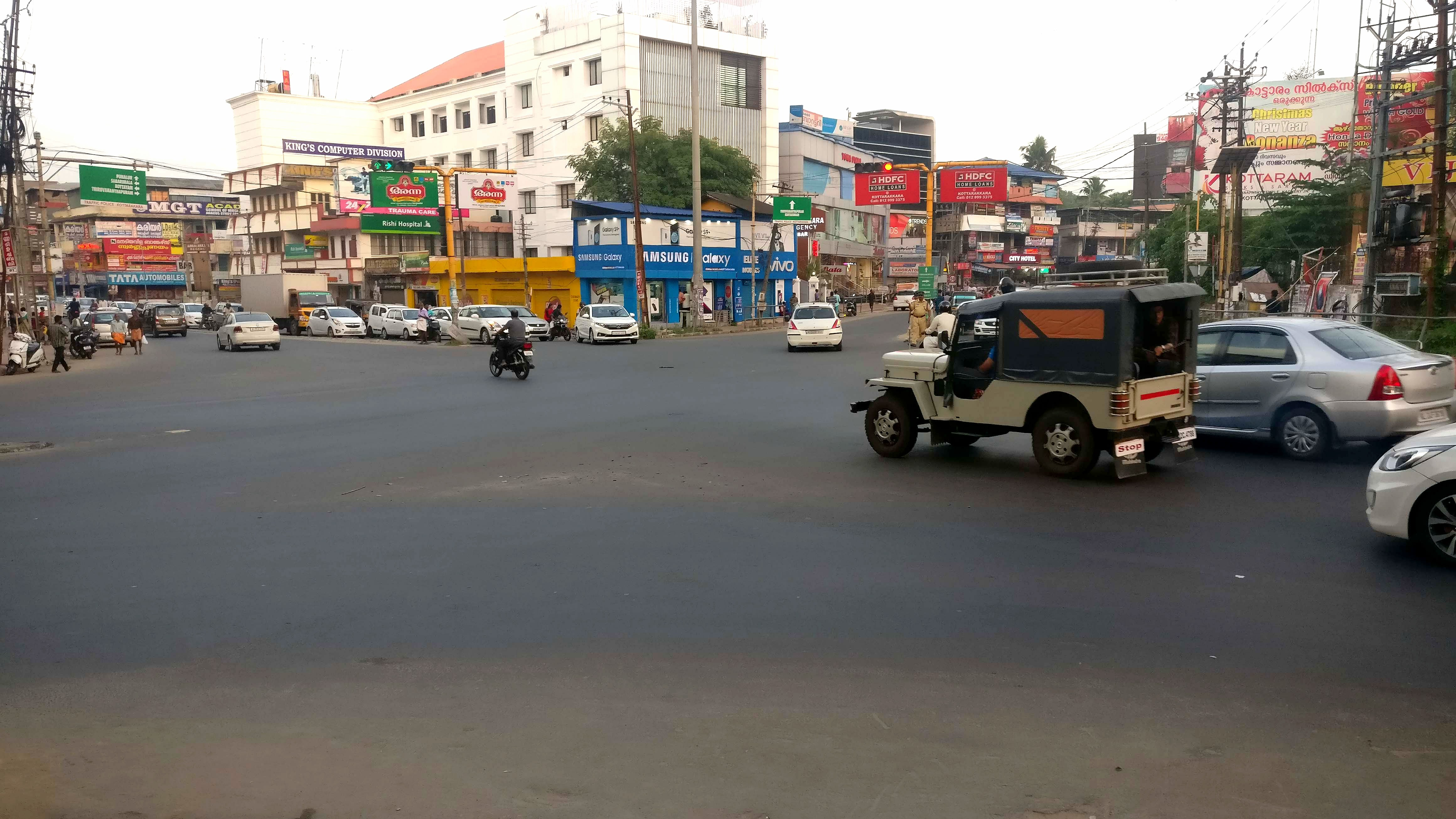 Pulamon is the major junction in Kottarakara town, Kollam